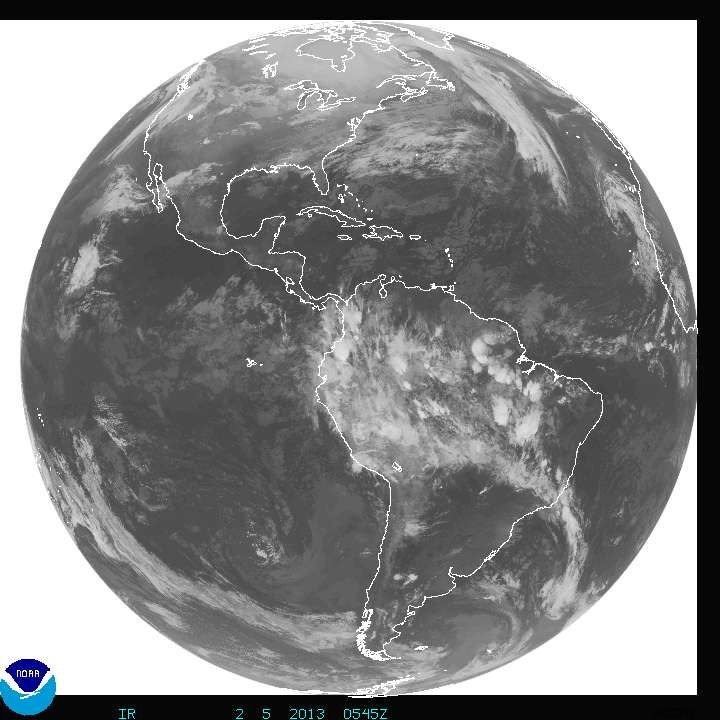 Satellite Image from the Western Hemisphere taken on Feb-05-2013